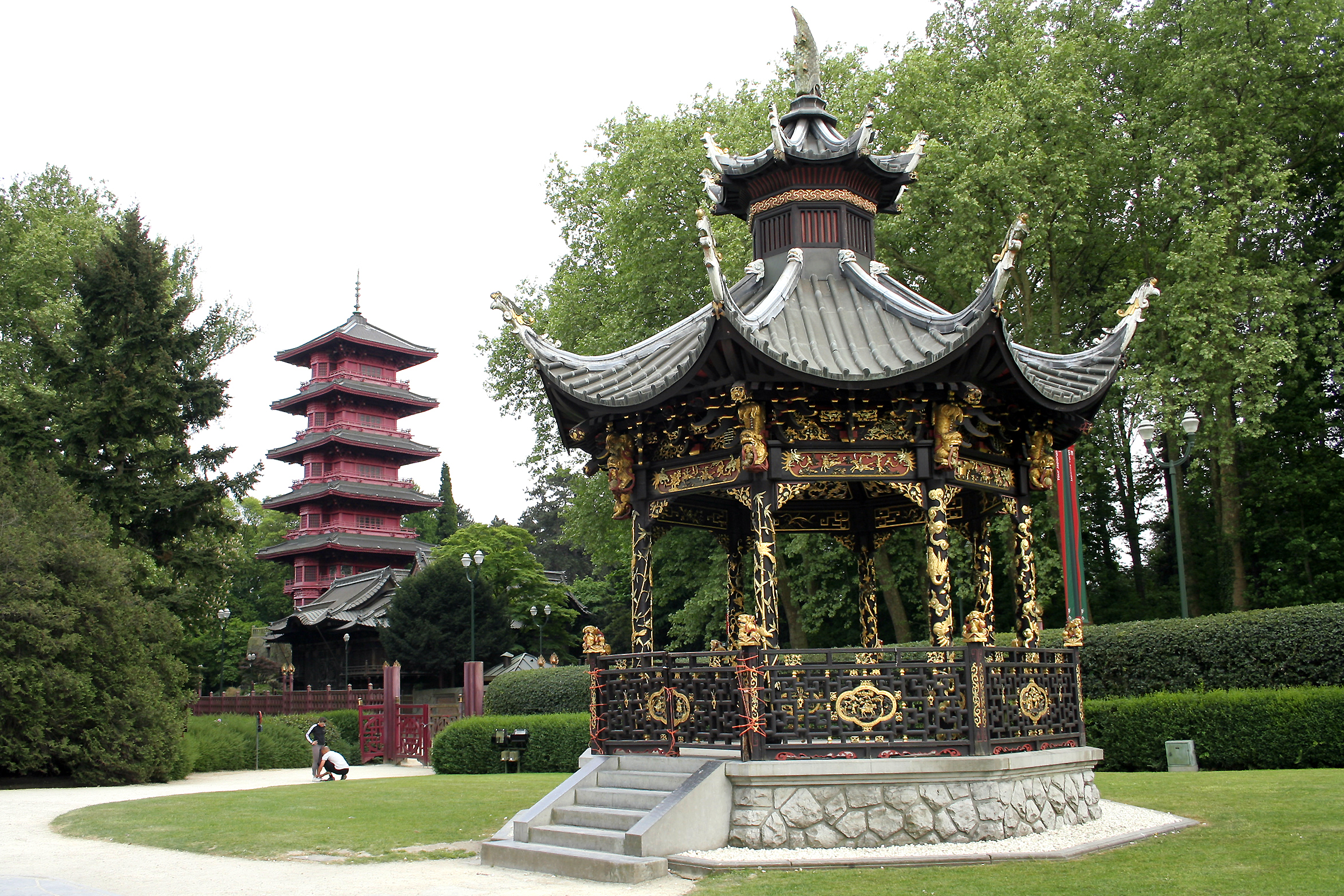 Laeken (Belgium), the japanese tower and the kiosk of the chinese pavilion (early XIXth century - Alexandre Marcel). Walon: Laeken (Bèljike), li toûr djaponaîse èt l'kioske do chalèt chinwès (dèbut do XIXin.me sièke - Alexandre Marcel).